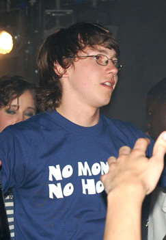 Actor Mike Bailey on the stage